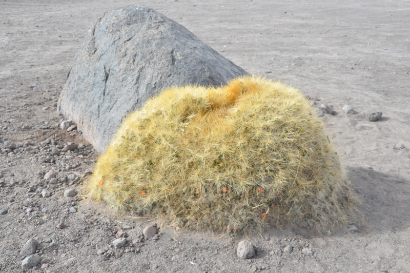 cactus near Tatio geyser field, Antofagasta Region, Chile